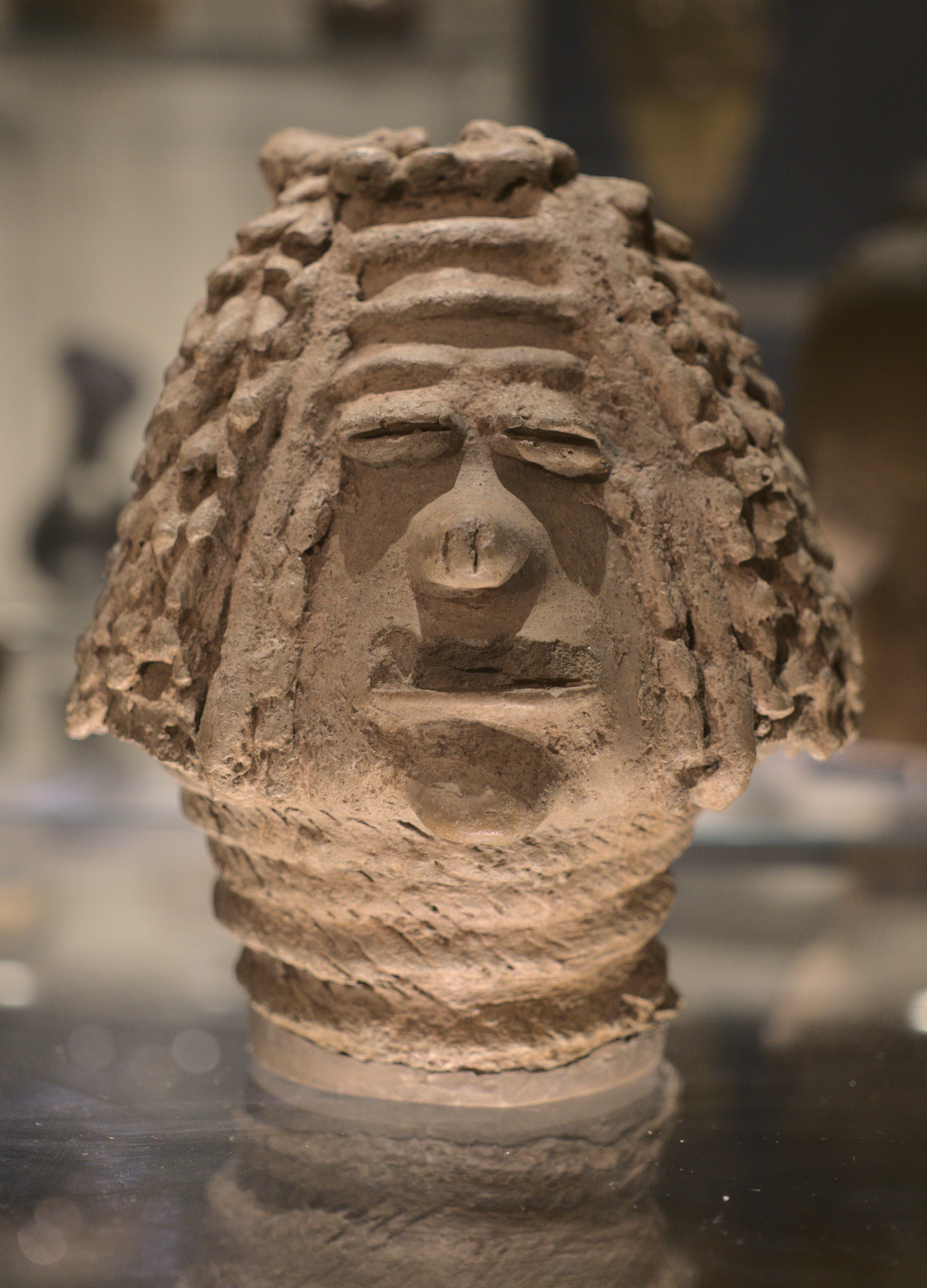 Front view of terracotta head found at Luzira, Uganda. c.1000 AD. On display in the British Museum, room 25.